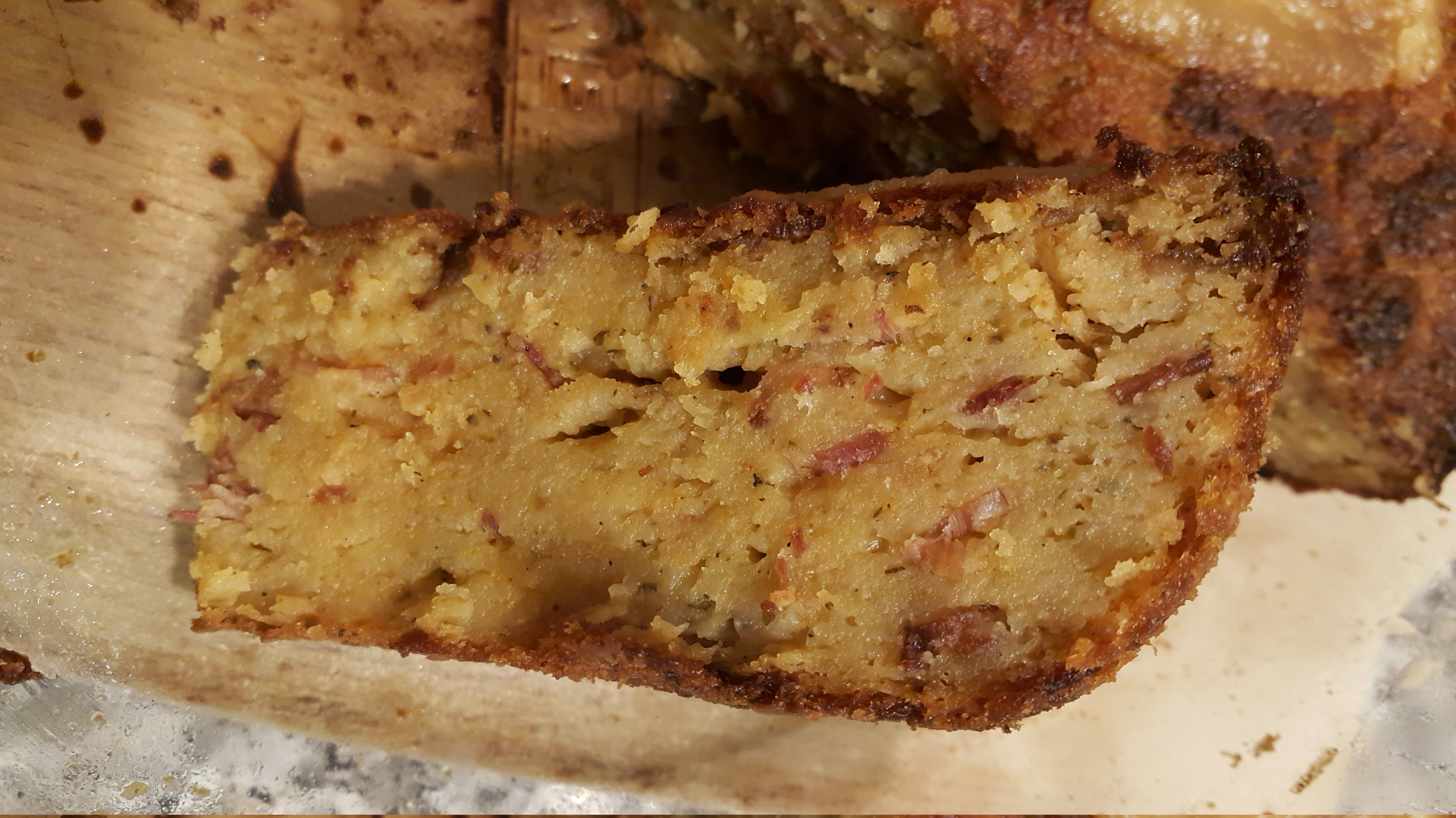 Babka ziemniaczana made according to traditional recipe from Podlasie, Poland, cross section.